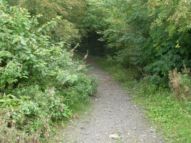 Path through forest in Cathkin Braes Country Park